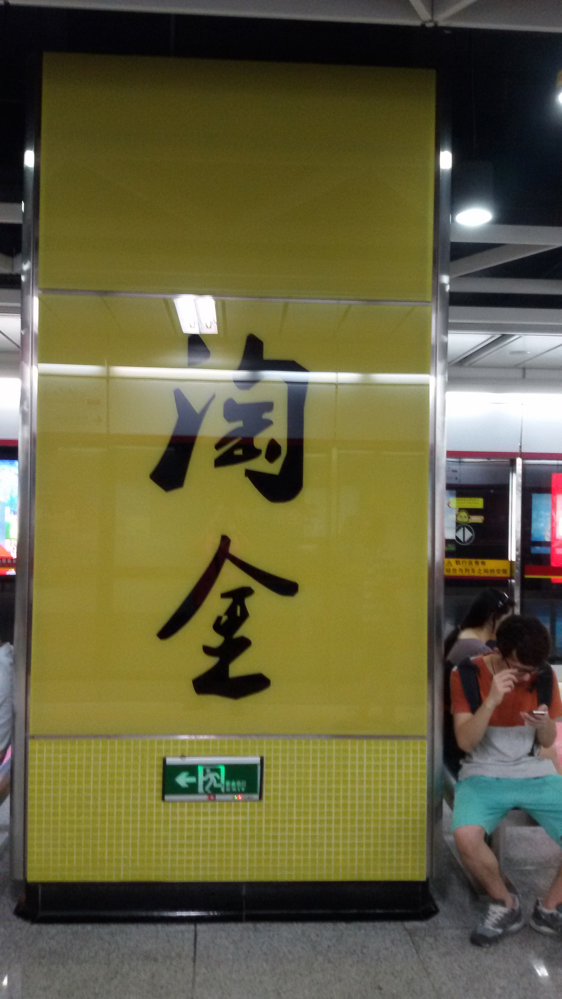 WORD on pillar for Taojin Station in Guangzhou Metro. 粵語: 淘金站嘅柱上面啲字